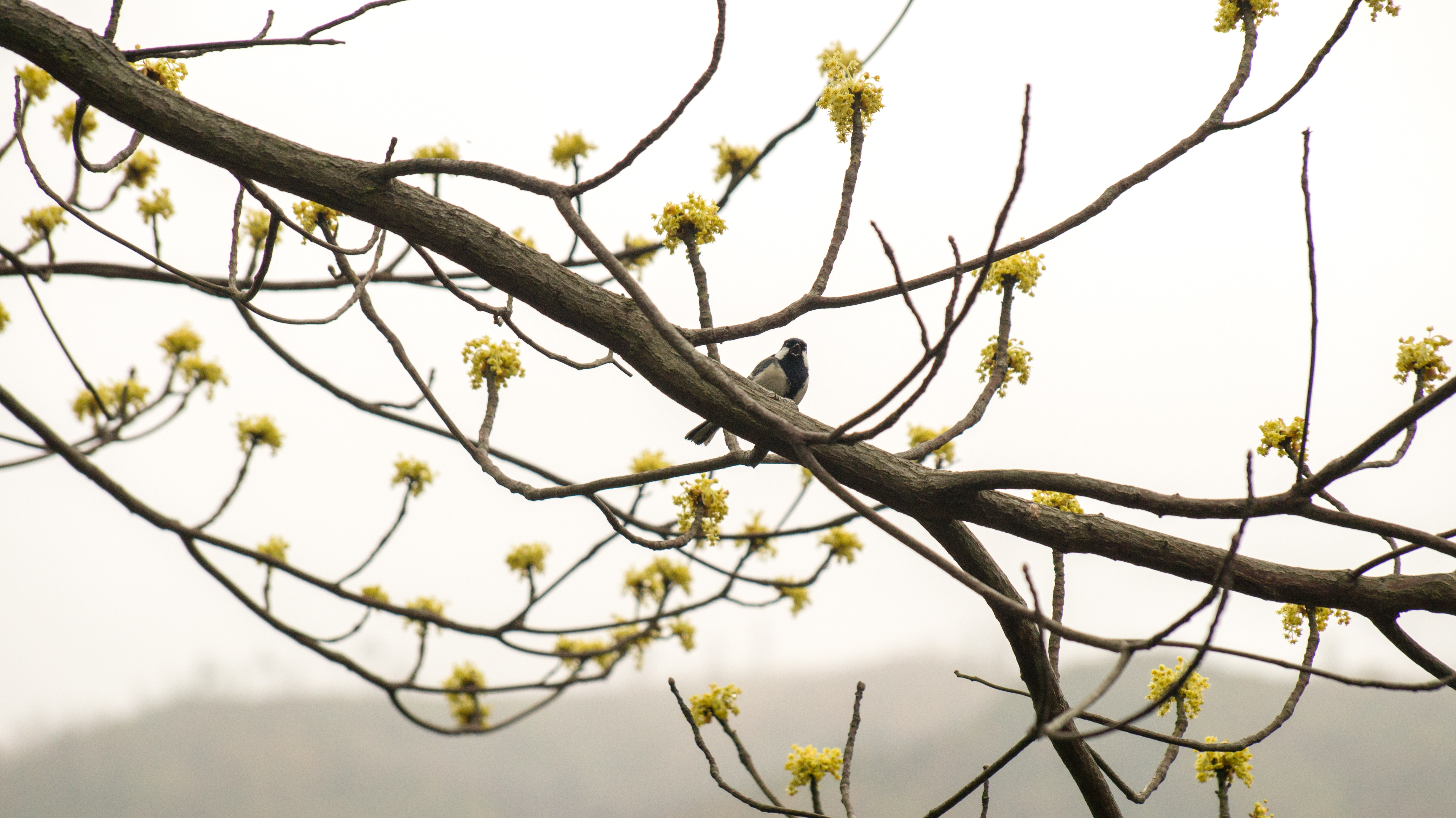 Sassafras tzumu, Qingtian, Zhejiang